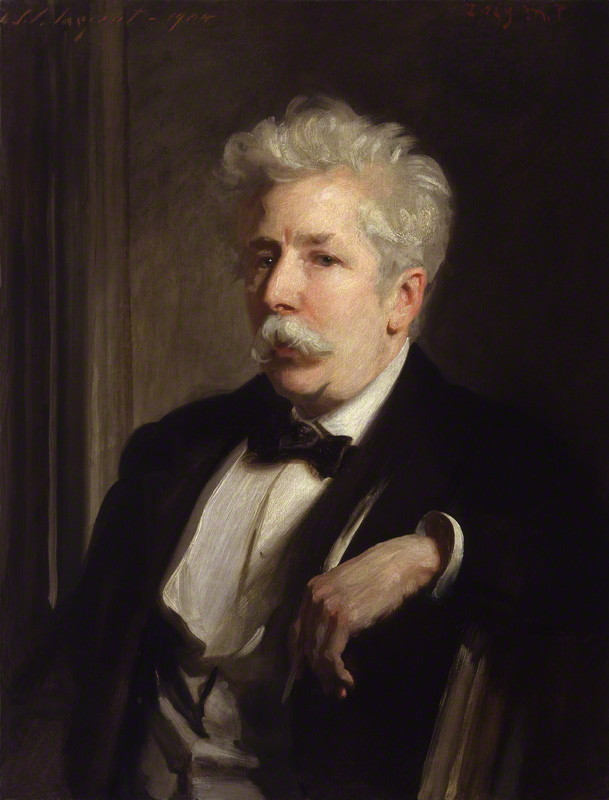 Sir Henry William Lucy (1845-1924) 1905 National Portrait Gallery, London Oil on canvas 72.4 x 53.3 cm (28 1/2 x 21 in.) NPG 2930